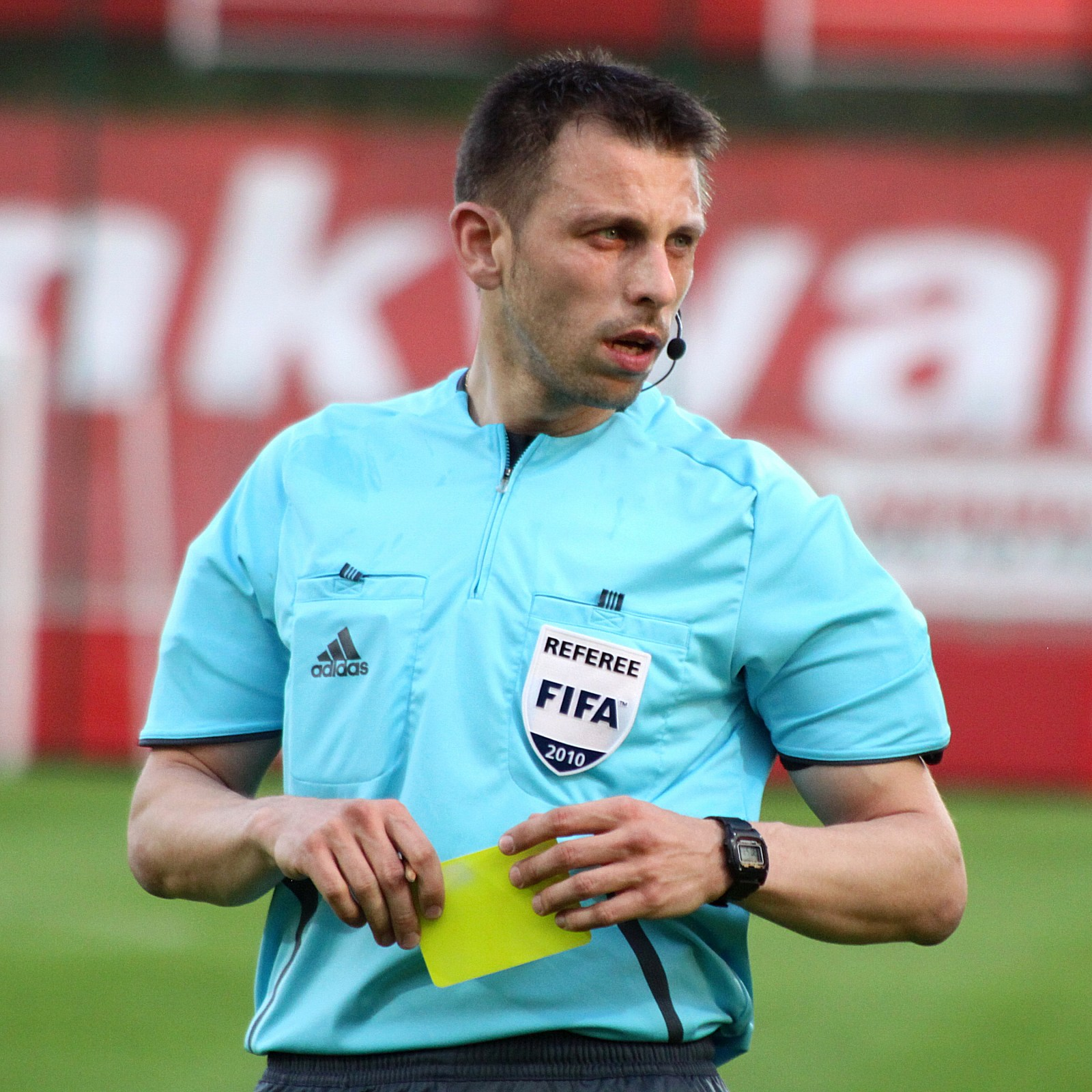 Gerhard Grobelnik, Referee of Austria